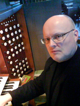 Nils Larsson at the great organ in Högalid church, Stockholm